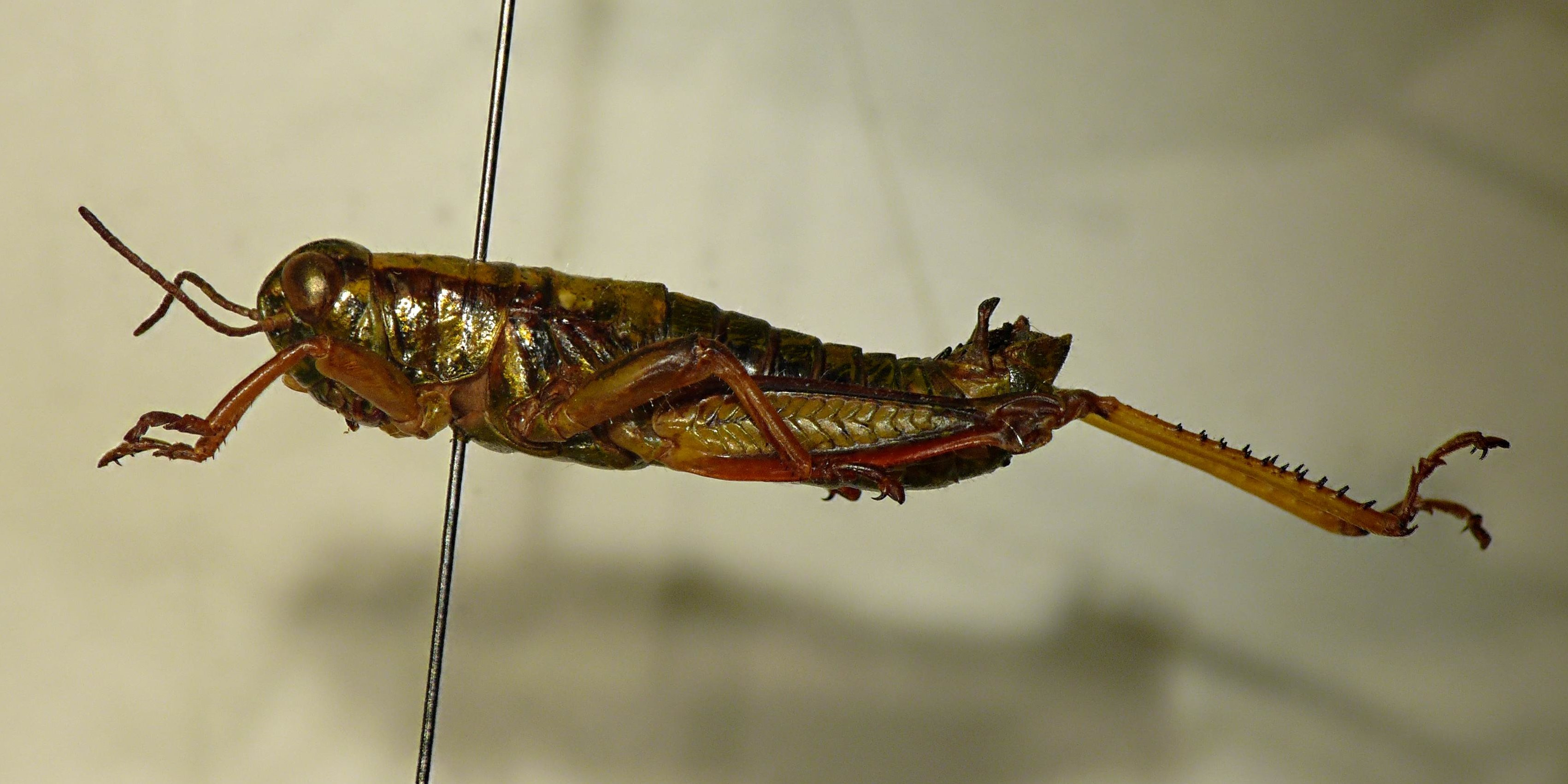 Male Chortopodisma cobellii Zoologische Staatssammlung München Dieses Foto wurde durch Wikipedianer in der Zoologischen Staatssammlung München (ZSM) erstellt. Das Präparat stammt aus der Sammlung der ZSM.